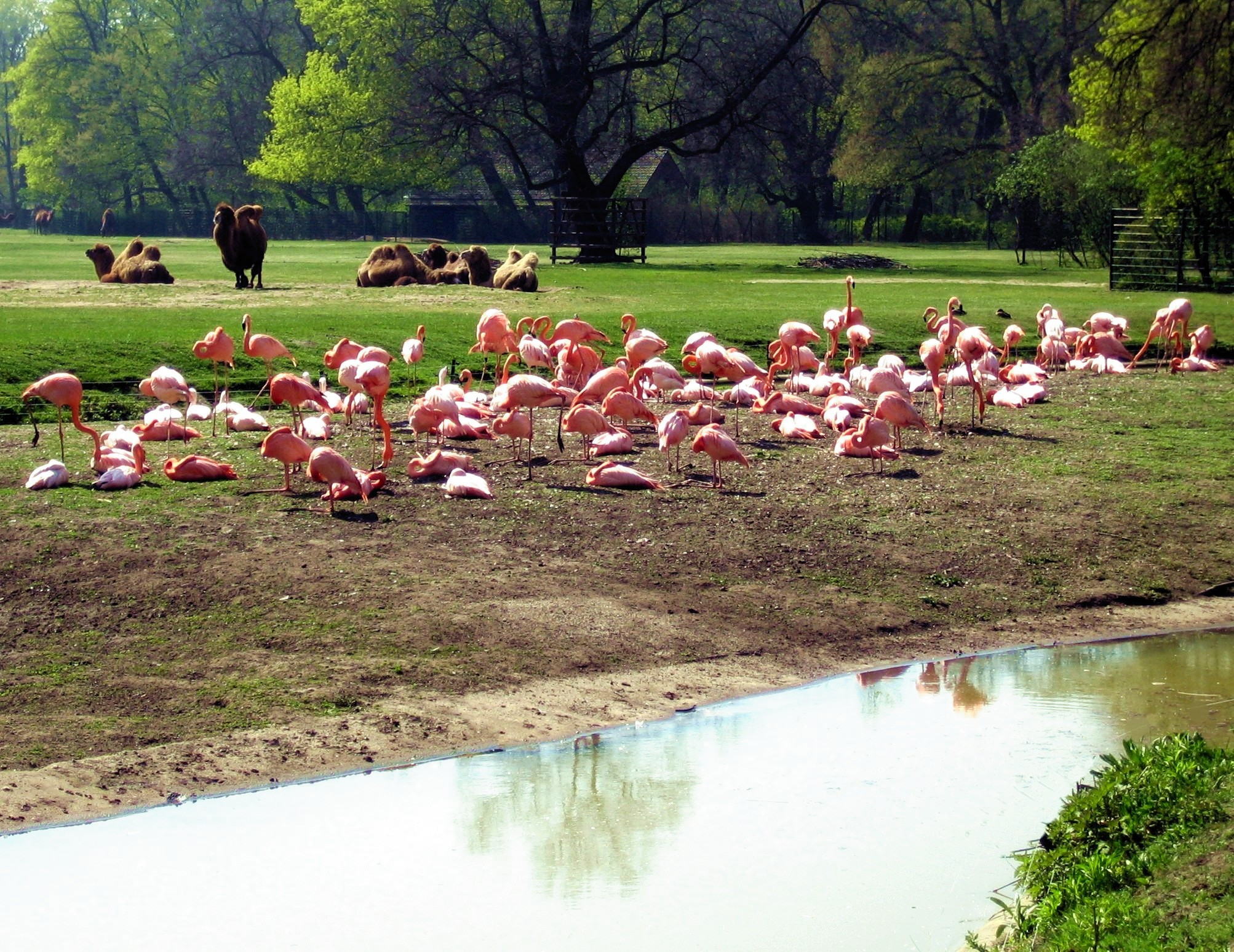 The "Tierpark Berlin" in Berlin-Friedrichsfelde, one of two zoos in Berlin (Germany). Flamingos.